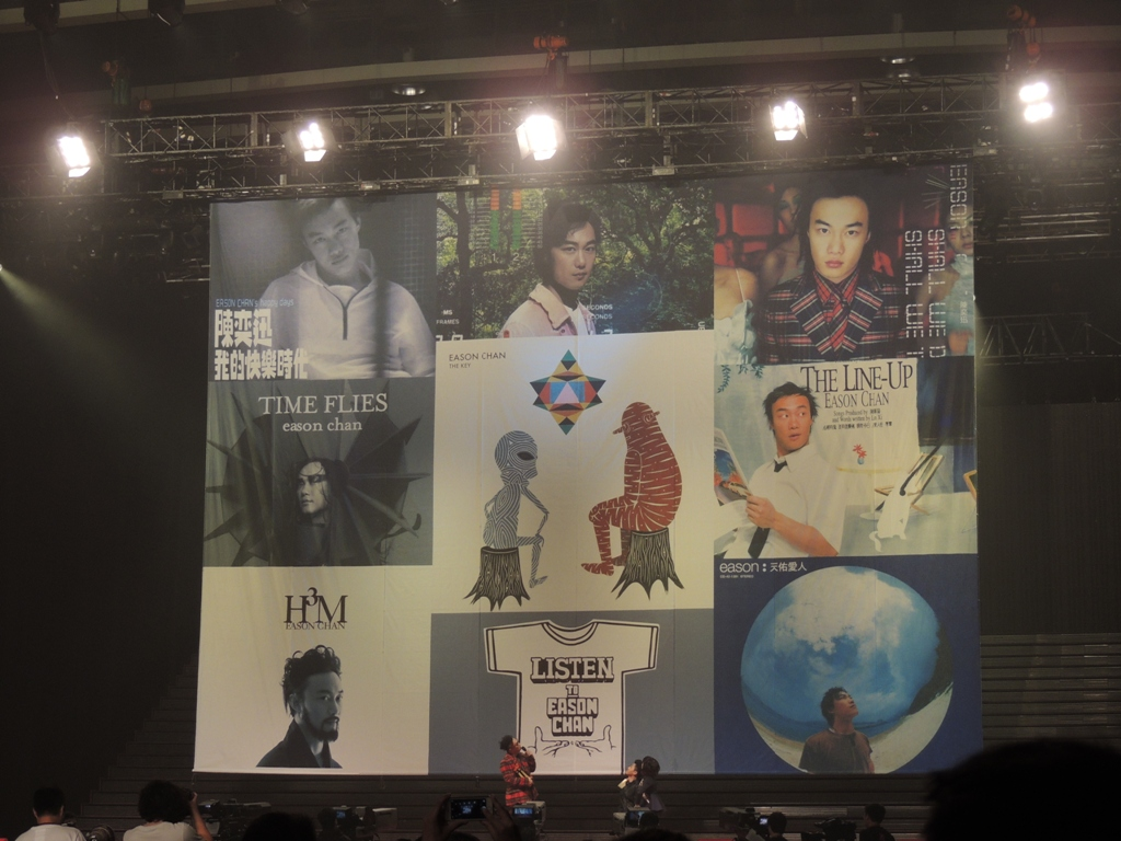 Ultimate Song Chart Awards 2013